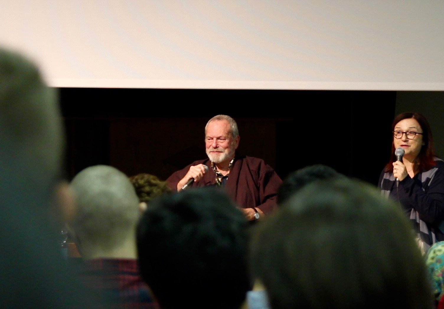 Director Terry Gilliam during a meet and greet before the screening of his film "The Man Who Killed Don Quixote" in Bologna, Italy